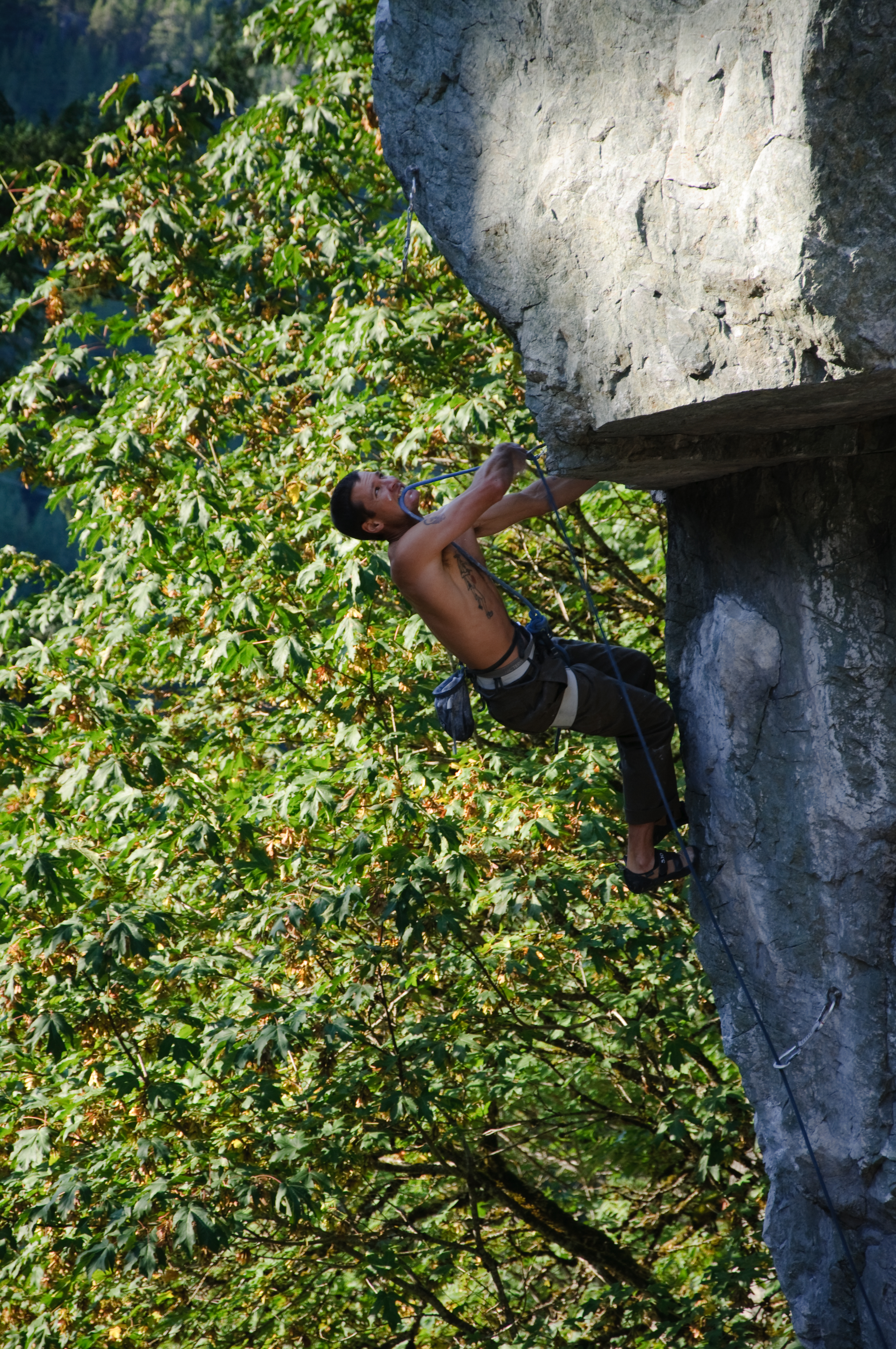 Climbing a small roof